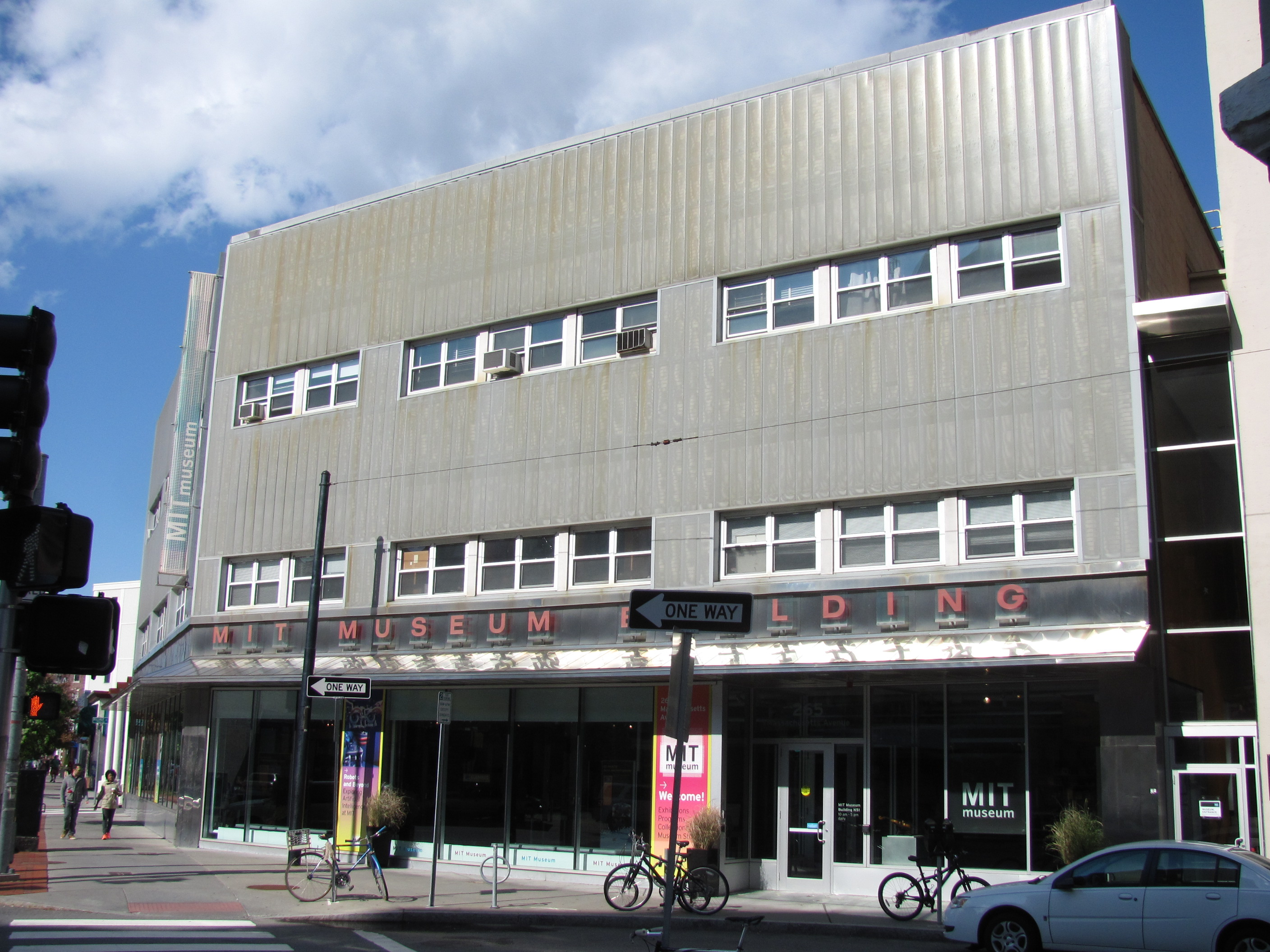 MIT Museum, Cambridge Massachusettss